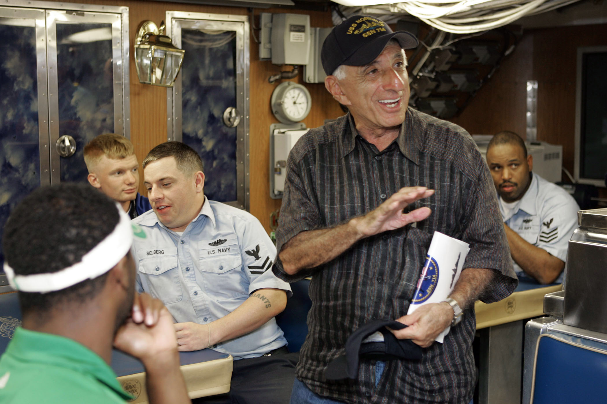 Jamie Farr, who played Klinger in the television show "Mash," meets members of the crew of attack submarine USS Norfolk (SSN 714).